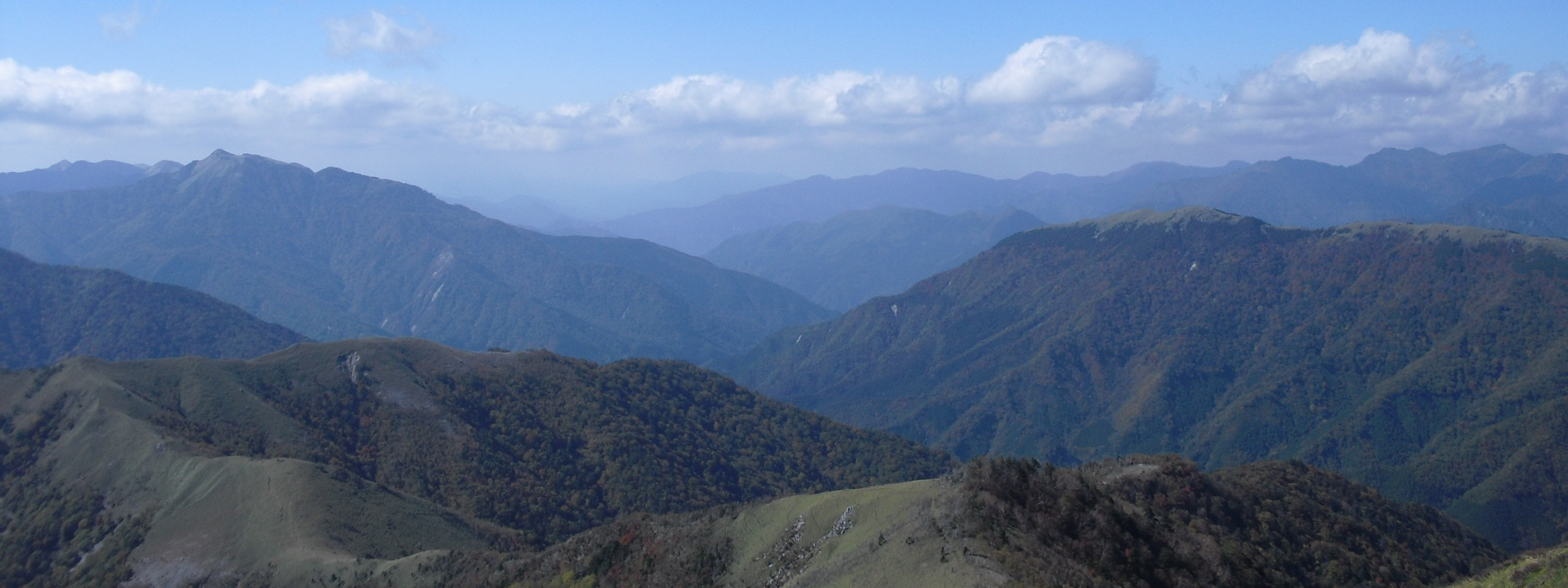 Looking the WbN from Mount Jirogyu.